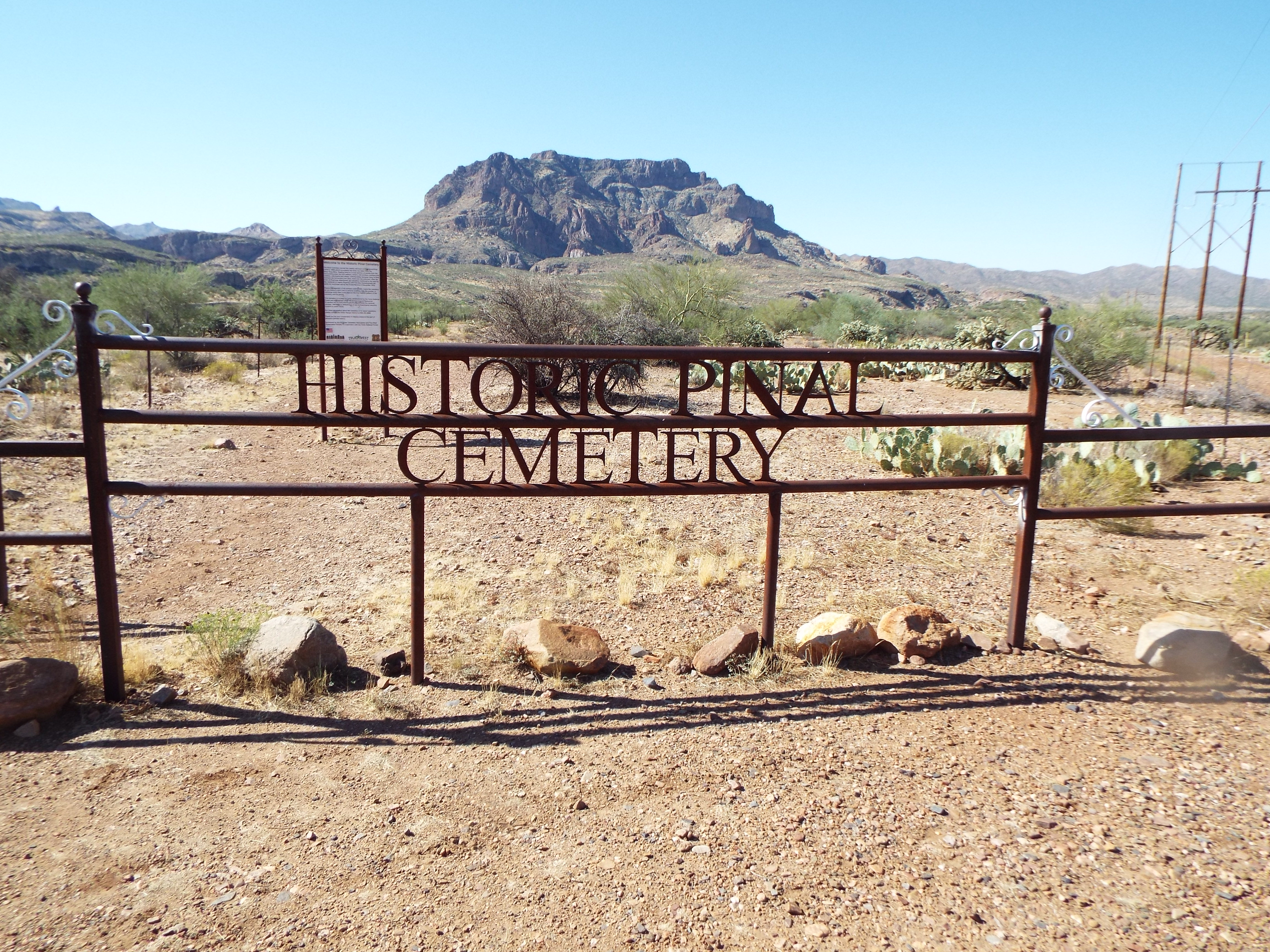 The Historic Pinal Cemetery established in 1876 in the defunct Pinal City which is now within the boundaries of Superior, Az .